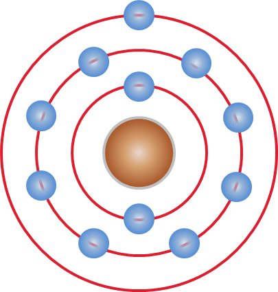 Electron shells of a sodium atom